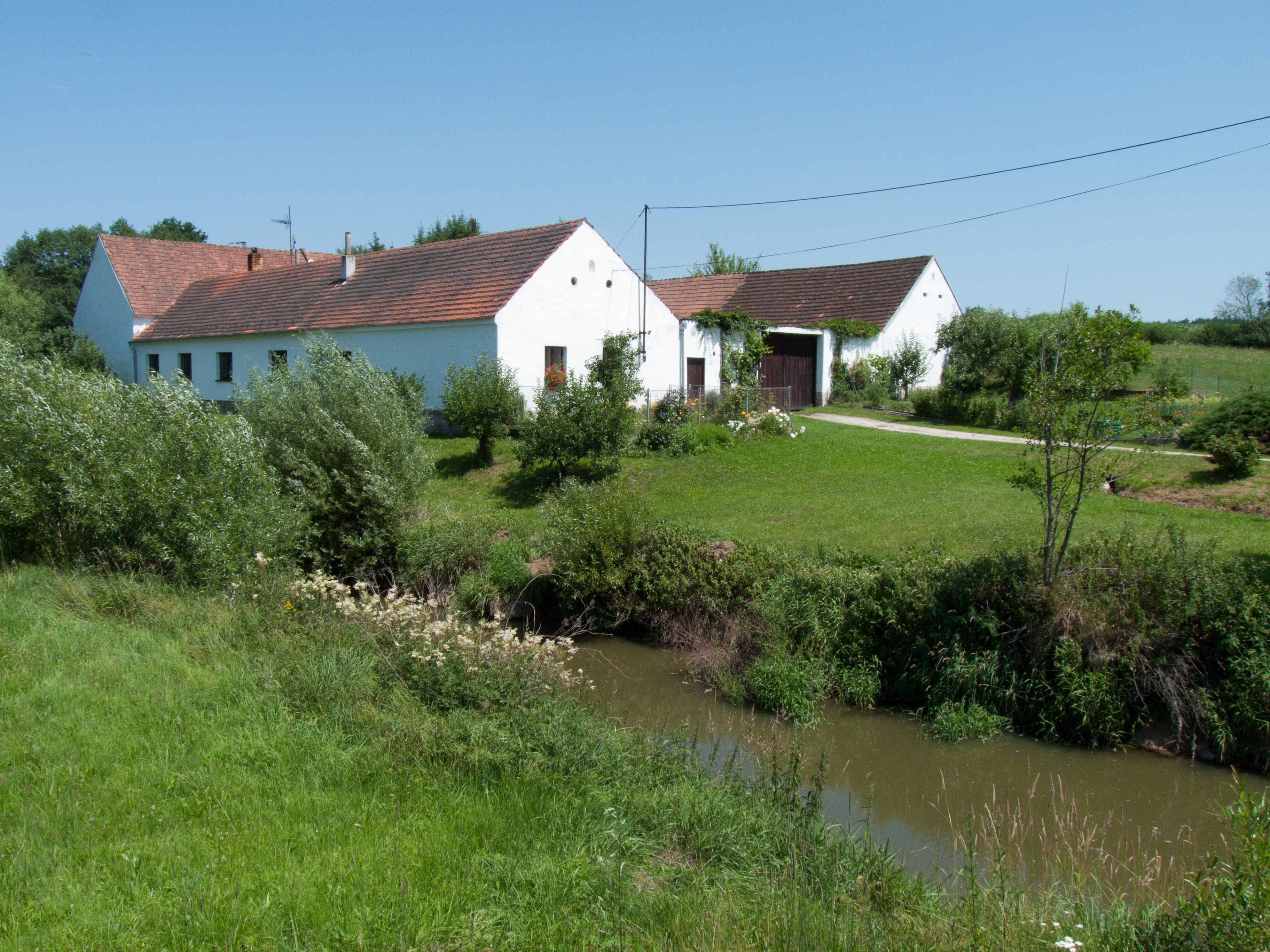 House No 6 in Veselka, is a small village in České Budějovice District, Czech Republic. Česky: Stavení č.p. 6 ve vsi Veselka, části města Trhové Sviny v okrese České Budějovice.